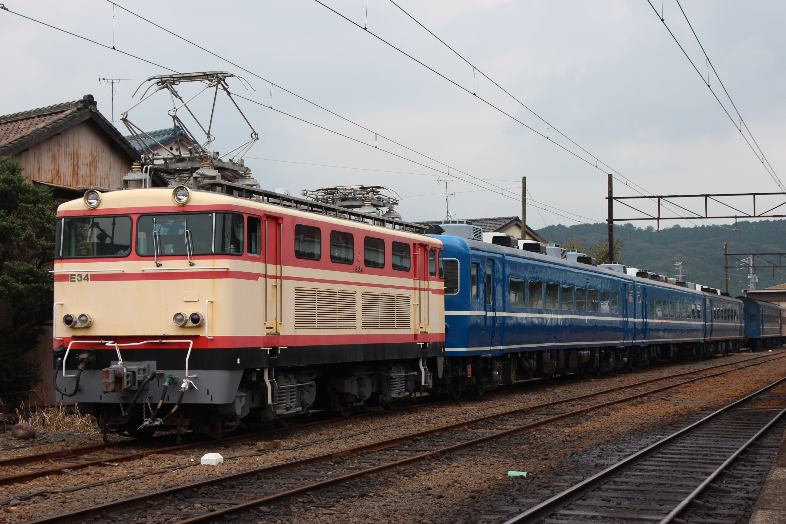 Former Seibu Class E31 electric locomotive number E34 together with former JR Hokkaido 14 series coaches at Shin-Kanaya on the Oigawa Railway in Shizuoka Prefecture, Japan